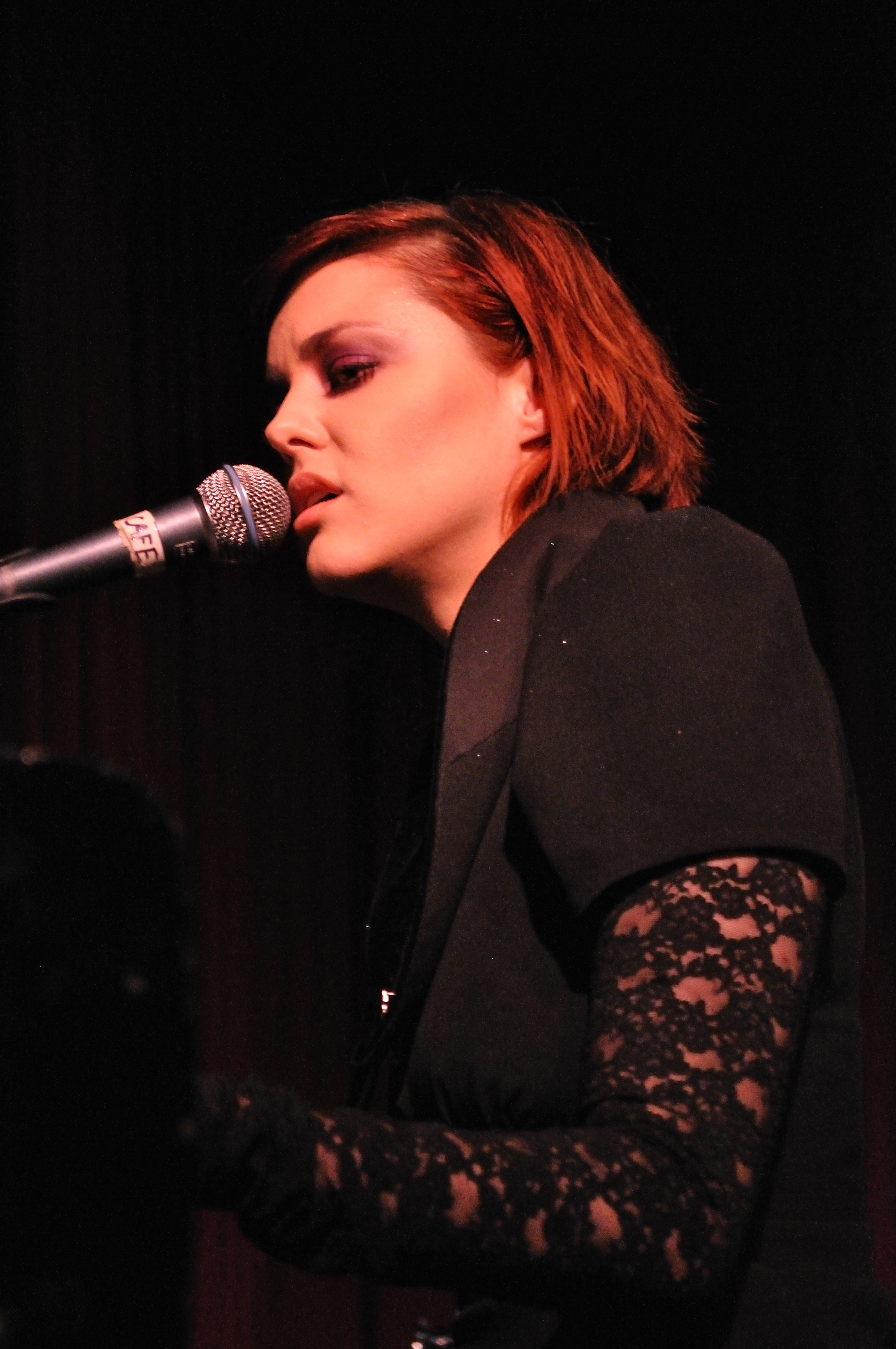 Anna Nalick performs "Music Muse" at the final show of her residency at Hotel Cafe, Hollywood, California, USA on 5 October 2010.